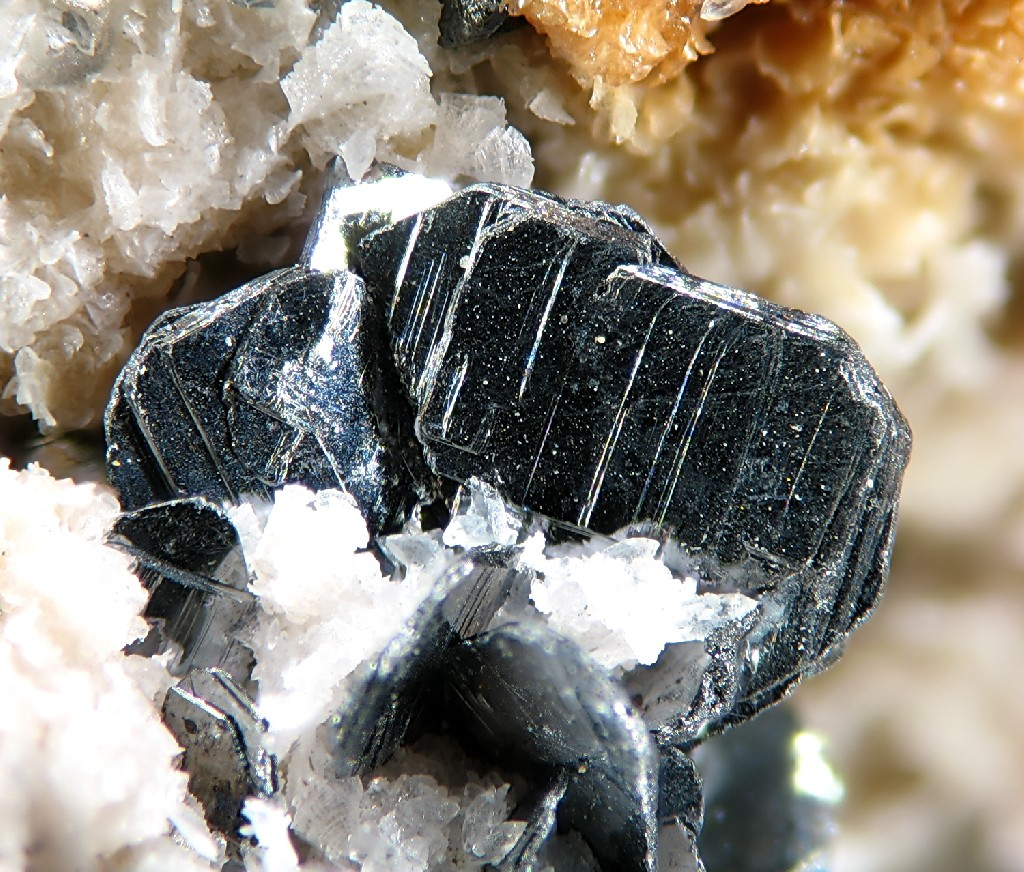 Nagyágite Locality: Sacarîmb (Sãcãrâmb; Szekerembe; Nagyág), Hunedoara County, Romania (Locality at ) Picture width 3 mm. Collection and photograph Christian Rewitzer